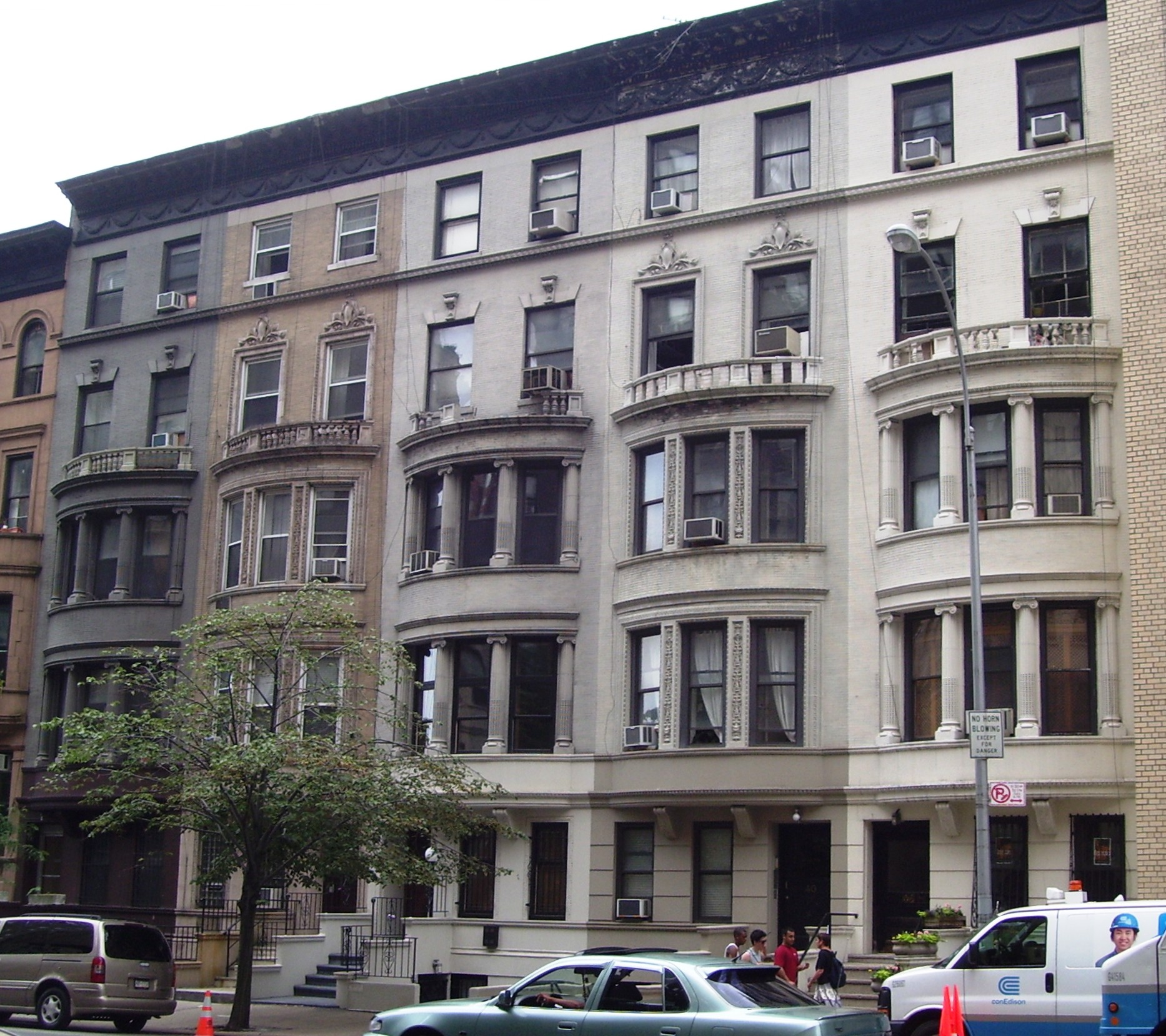 34-42 West 96th Street between Central Park West and Columbus Avenue in the Upper West Side neighborhood of Manhattan, New York City are 5 rowhouses built in 1897 and designed by George F. Pelham in Renaissance Revival style. They are located within the Upper West Side-Central Park West Historic District. (Source: "NYCLPC Upper West Side - Central Park West Historic District Designation Report, volume 3")